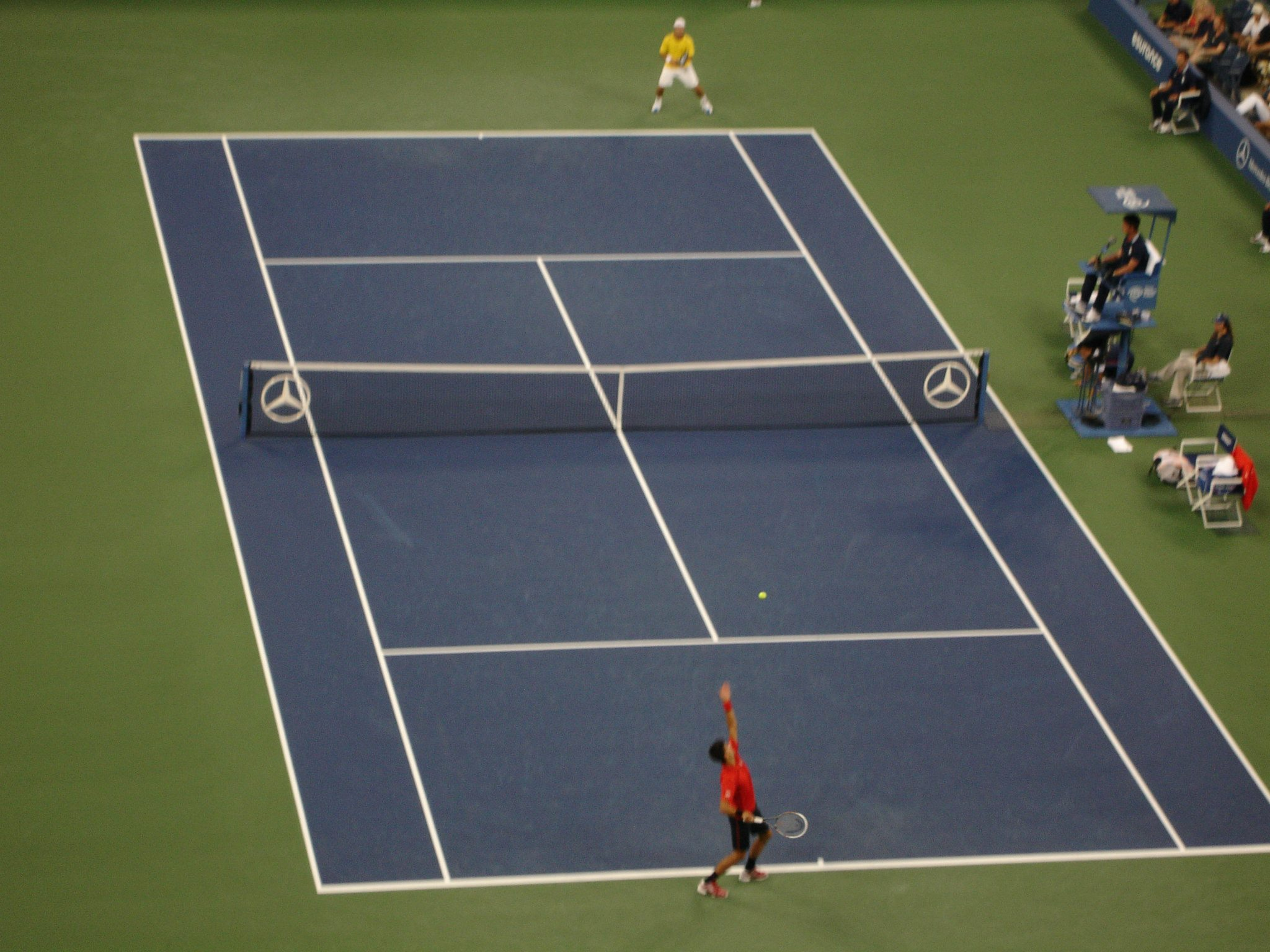 Novak Đoković on US Open 2013 during first round mach with Ričardas Berankis